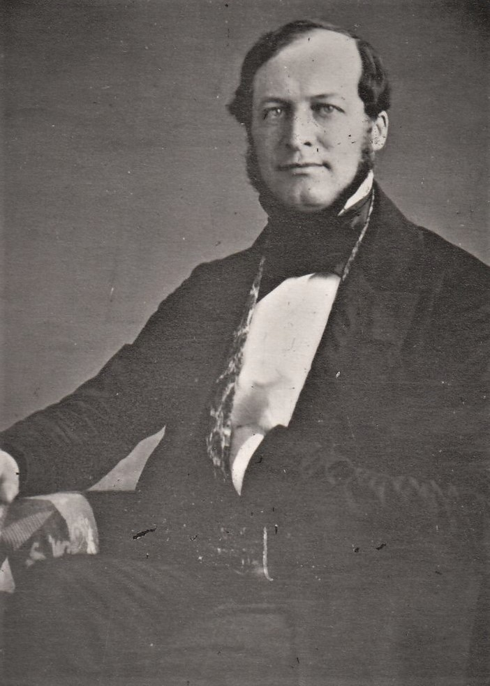 Depicted person: Fritz Lorck – Norwegian politician